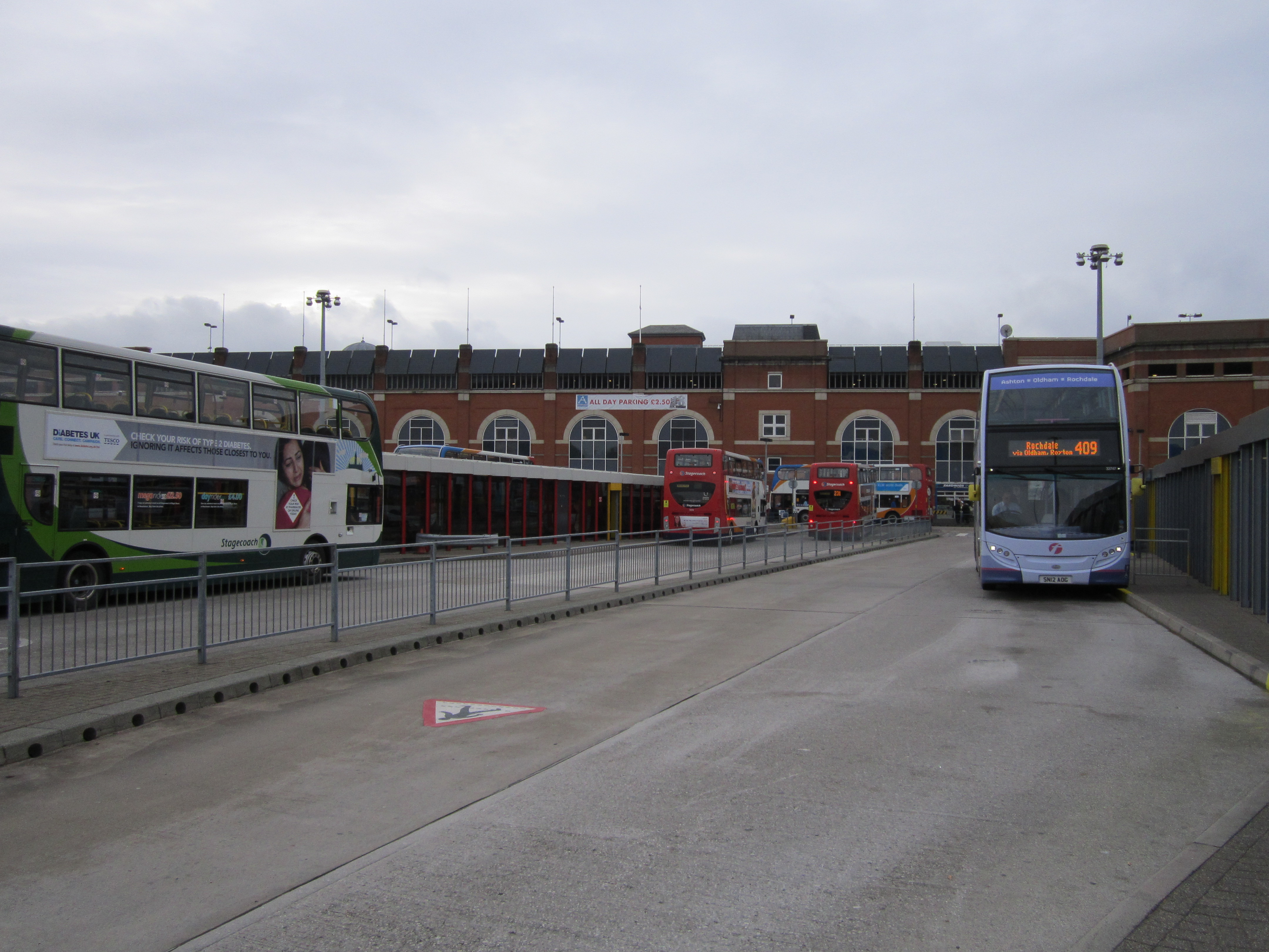 Photo taken at Ashton-under-Lyne bus station, Greater Manchester, England.